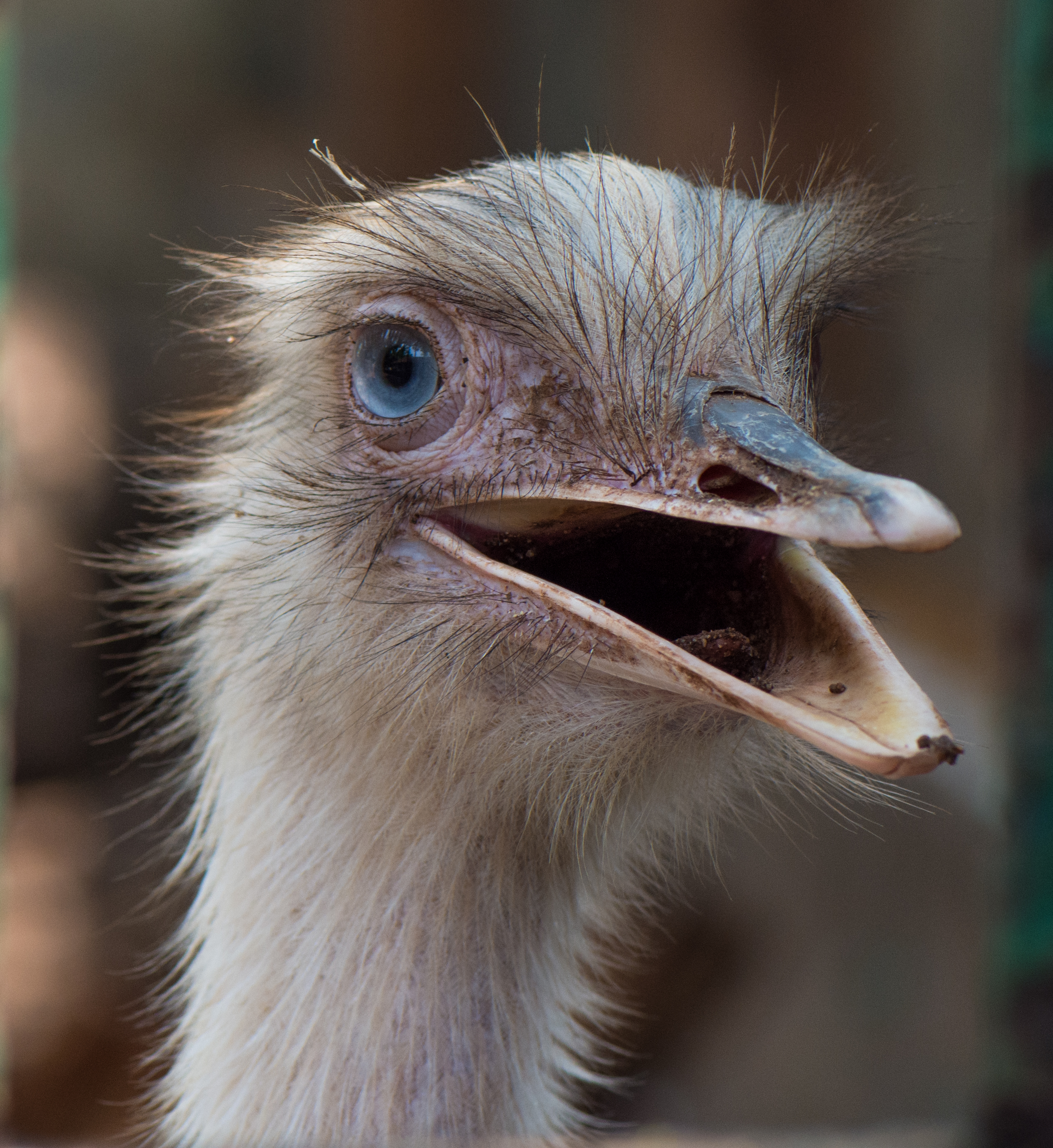 The greater rhea (Rhea americana) is a flightless bird found in eastern South America. Other names for the greater rhea include the grey, common, or American rhea; ñandú (Guaraní and Spanish); or ema (Portuguese).